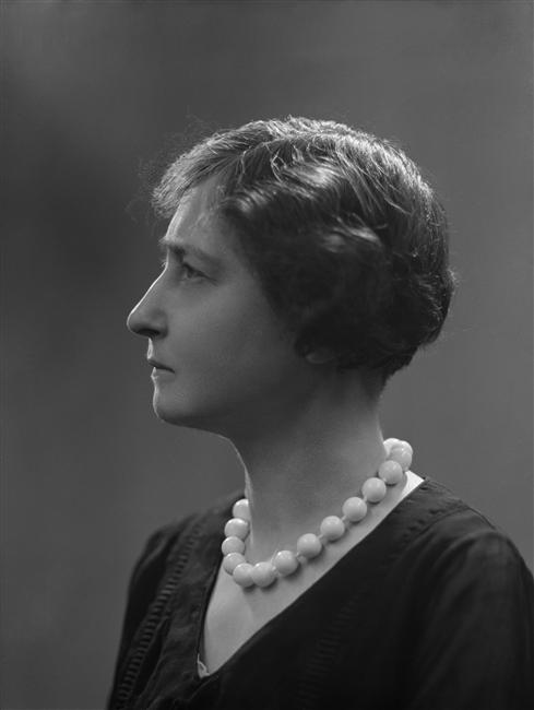 Studio photo